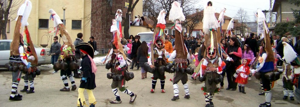 Mummers in Pavel banya